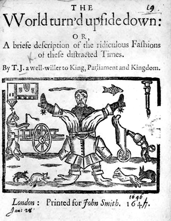 1646 Pamphlet: World turn'd upside down